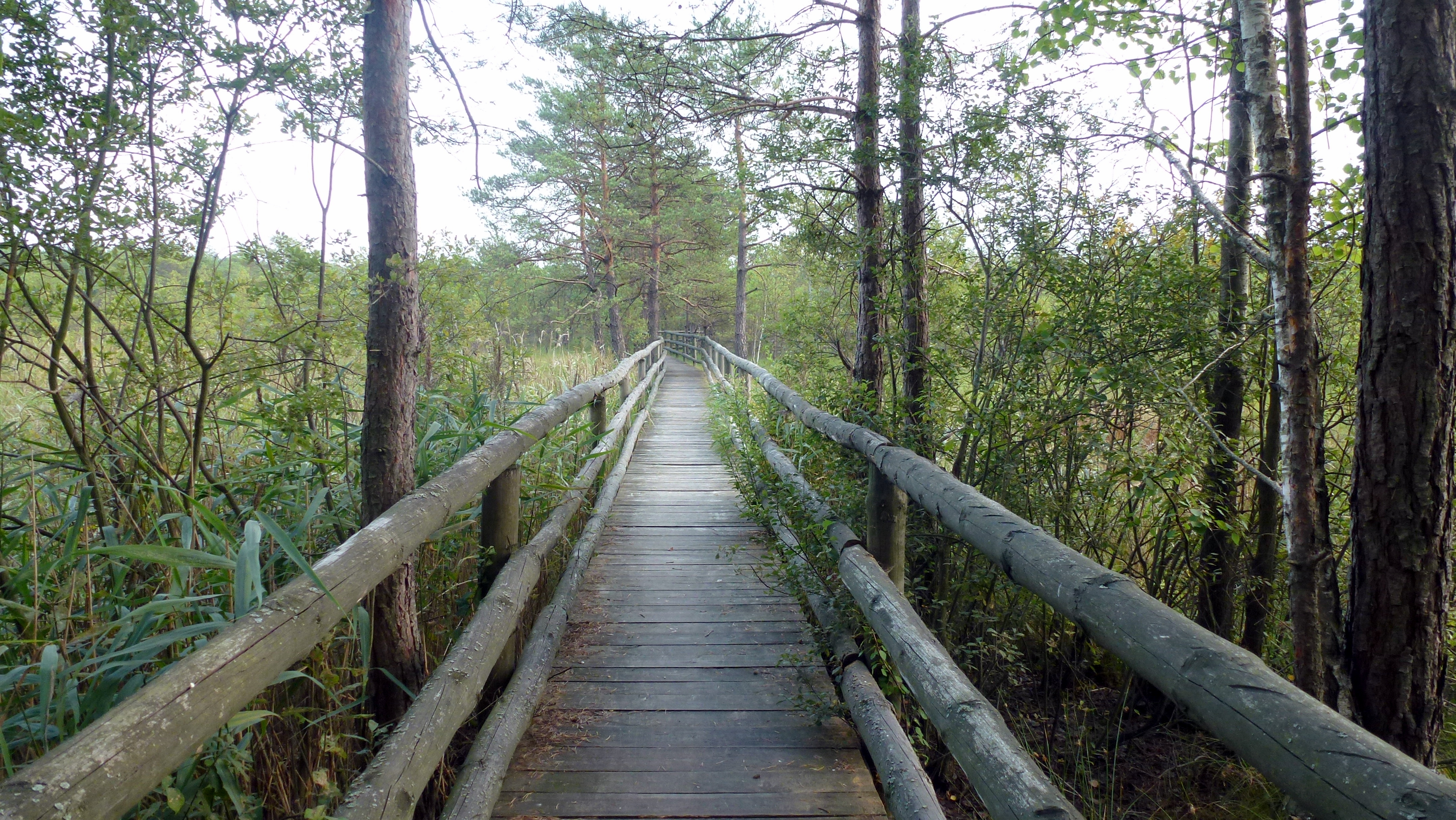 Imielty Ług nature reserve